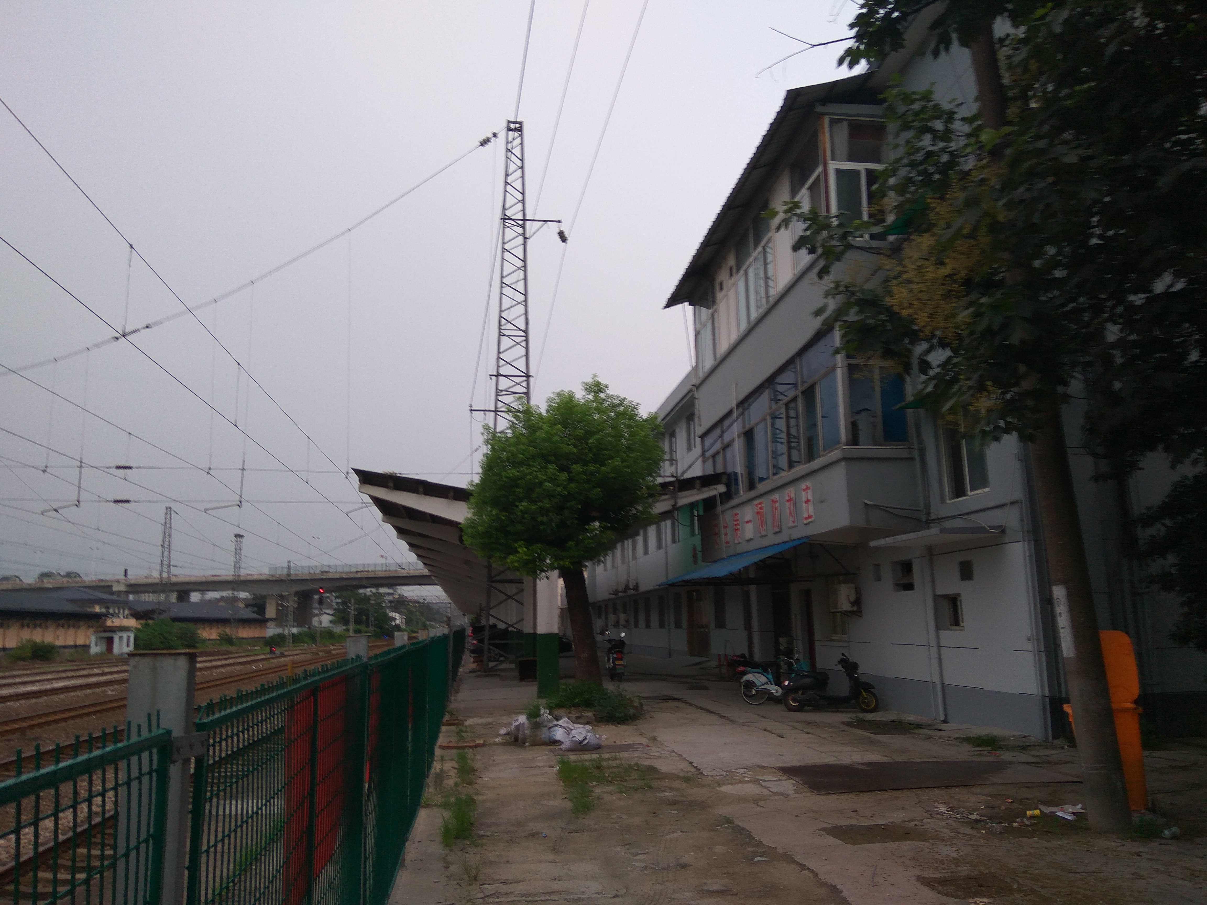 201607 Nanxingqiao Station Conductor